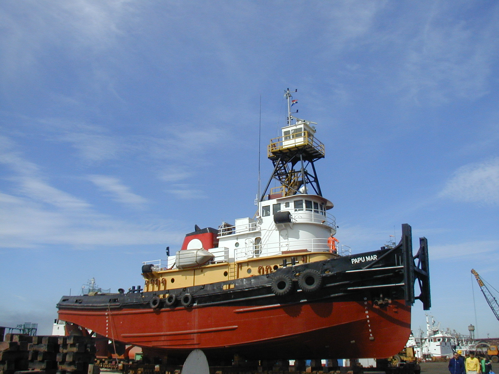 Tug boat modify to push boat at dry dock Buenos Aires. IMO number : 7514828 Name of ship : PAPU MAR Call Sign : ZPMI Gross tonnage : 168 Year of built : 1977 Flag : Paraguay